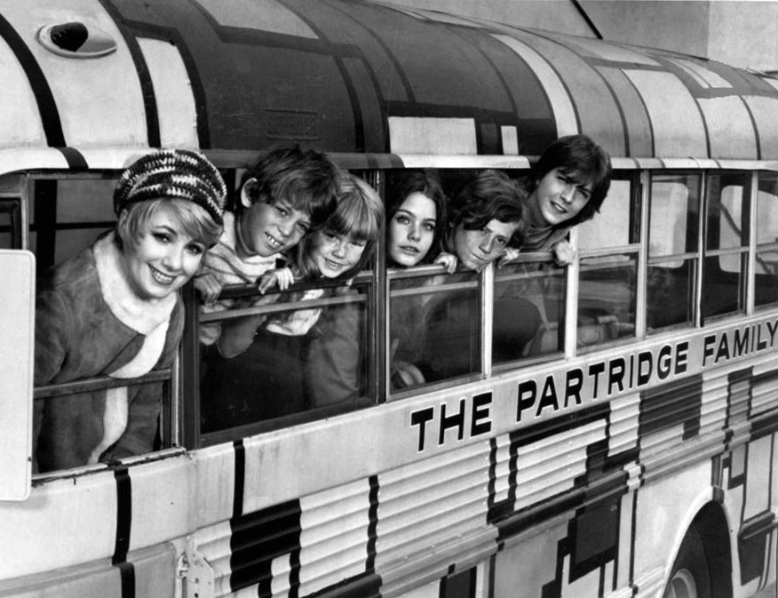 Photo of the cast of the television program The Partridge Family. This is the first season cast including Jeremy Gelbwaks. From left: Shirley Jones, Jeremy Gelbwaks, Suzanne Crough, Susan Dey, Danny Bonauce, David Cassidy.